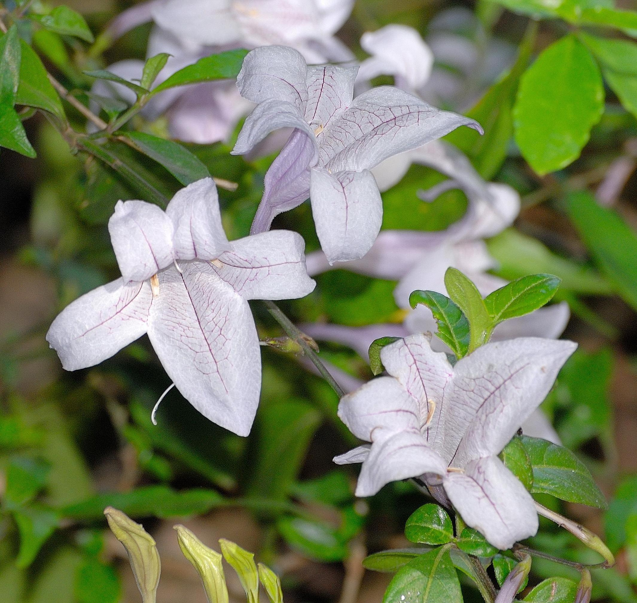 A Forest Bell Bush in Jan Celliers Park, Pretoria